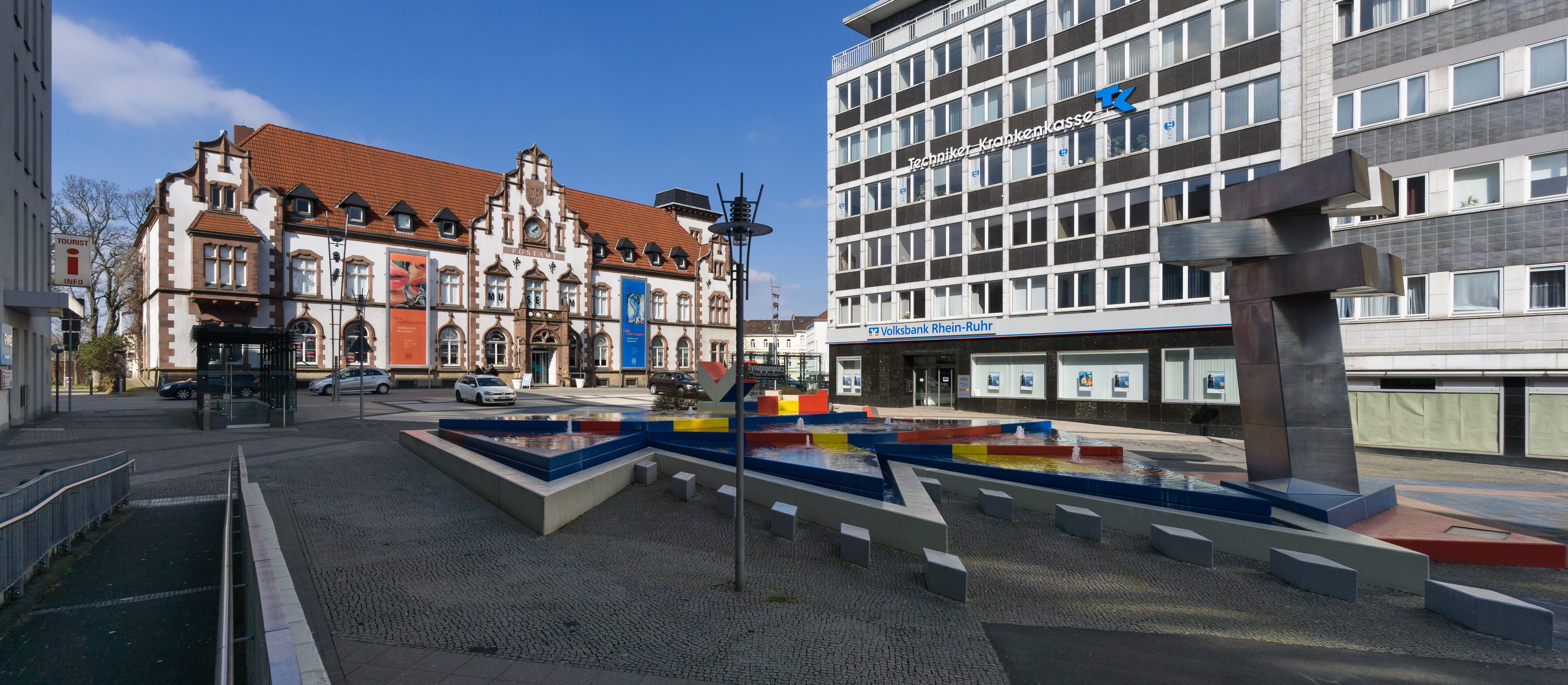 Synagogen square with Old Post Office (Alte Post) with Hajek fountain in Mülheim